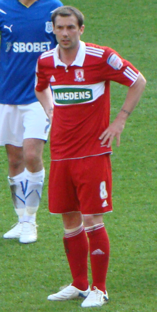 Kevin Thomson, 02/05/11 Cardiff V Middlesbrough, Football League Championship, Cardiff City Stadium, Cardiff, Wales